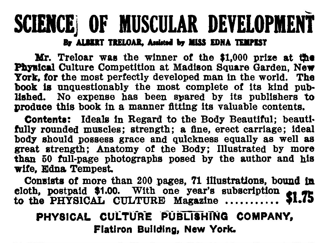 Book advertisement for Al Treloar and Edna Tempest, Treloar's Science of Muscular Development: A Textbook of Physical Training (1904).